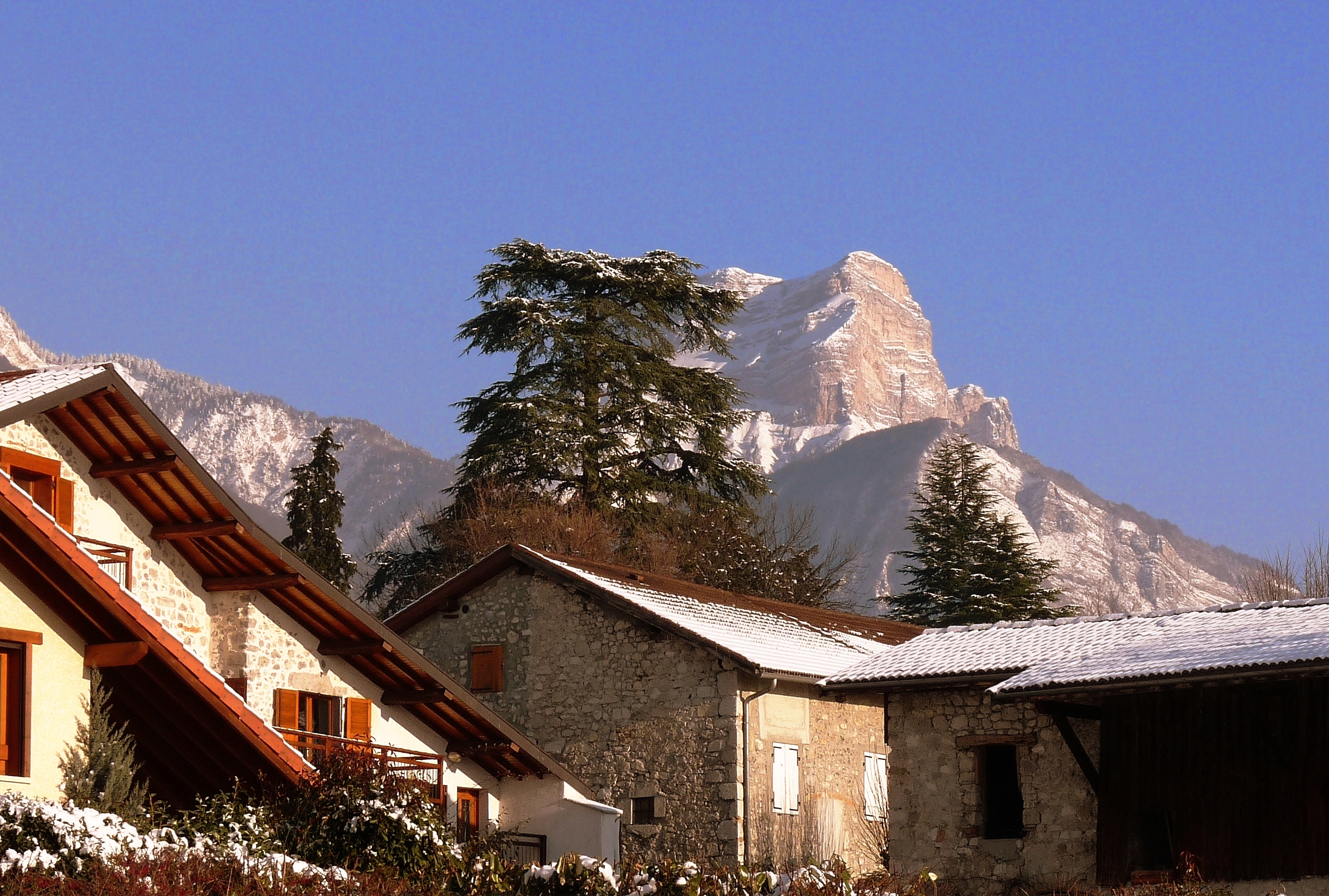 Biviers houses near chemin du Boeuf